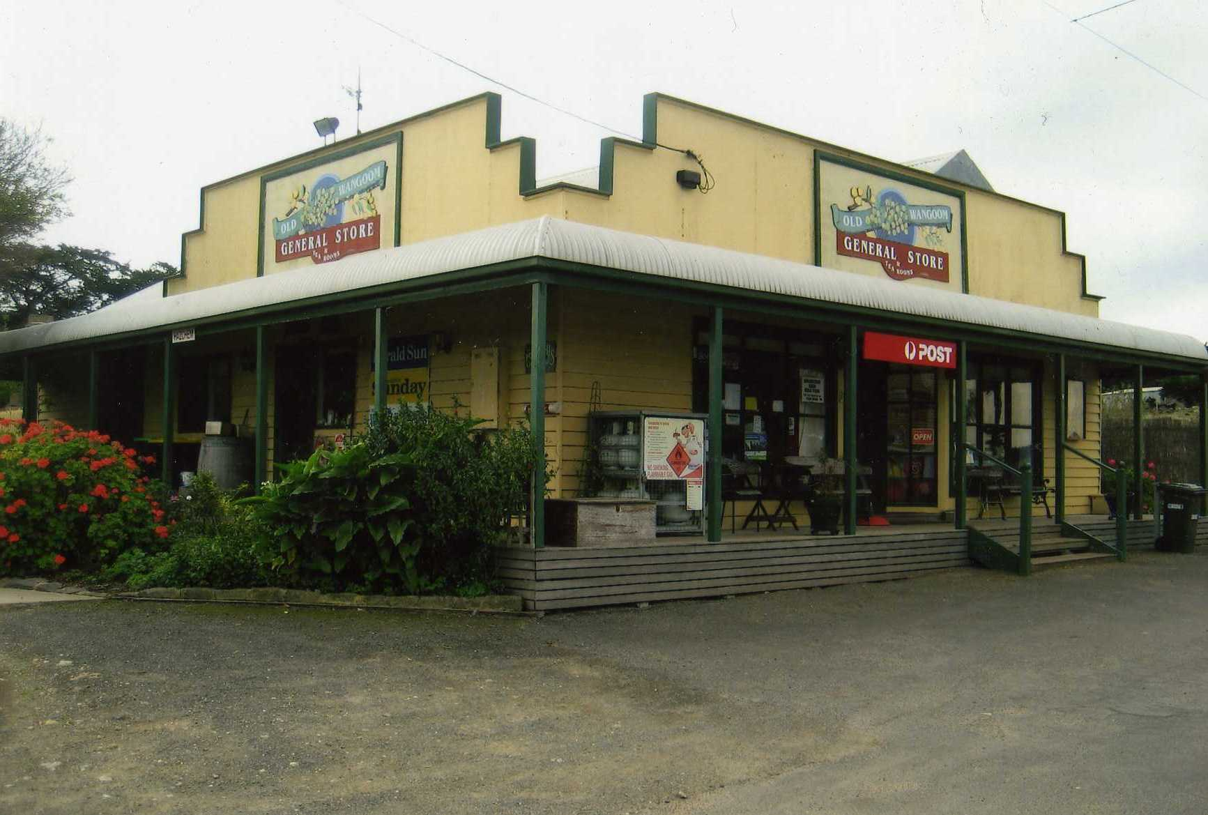 view from main street april 2012